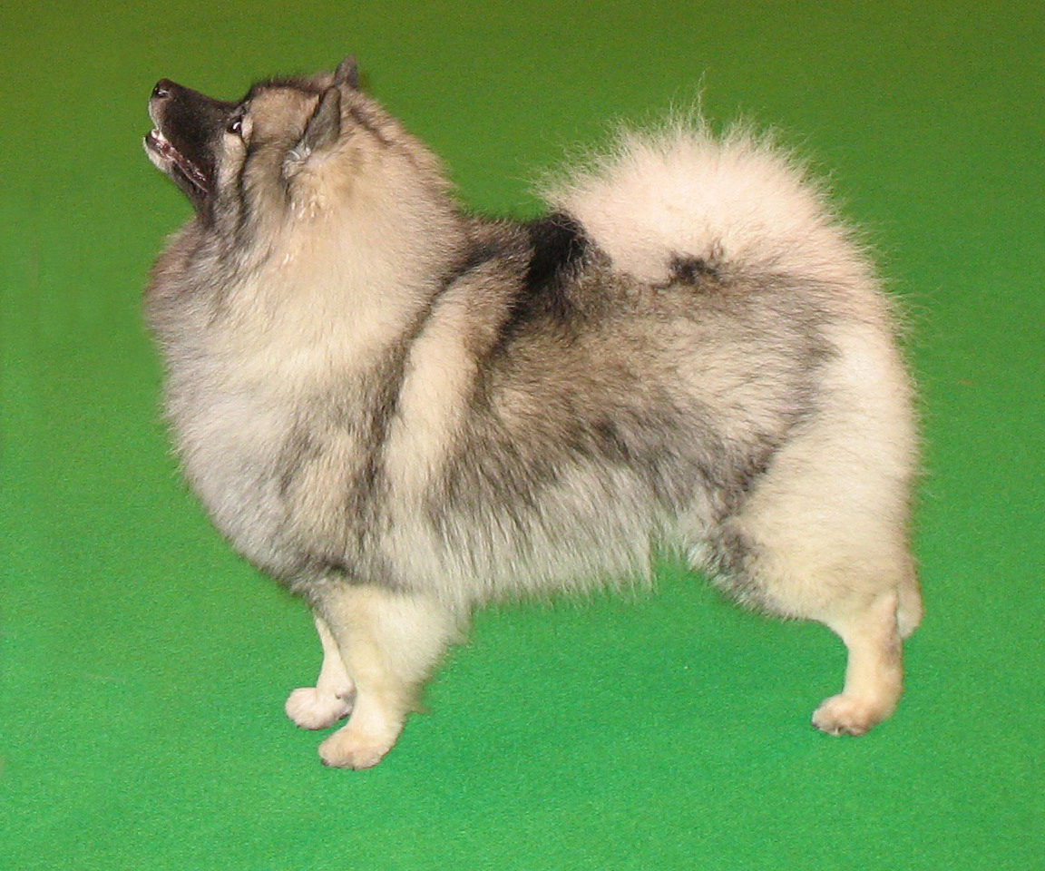 A Keeshond named Majic at the 2007 Crufts Dog Show.